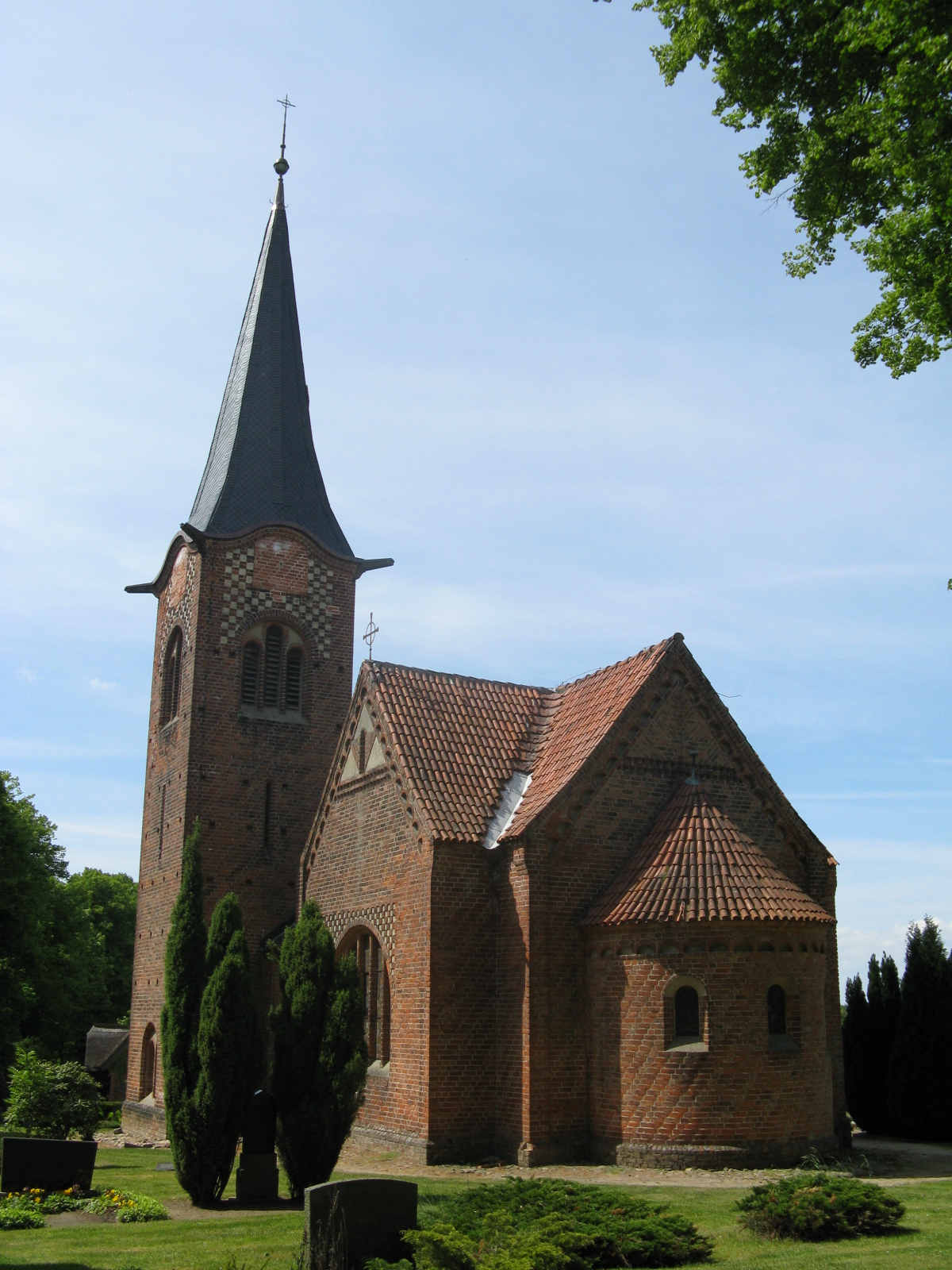 Church in Greven, Mecklenburg-Vorpommern, Germany